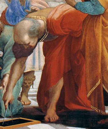 The School of Athens Fresco, width at the base 770 cm Stanza della Segnatura, Palazzi Pontifici, Vatican